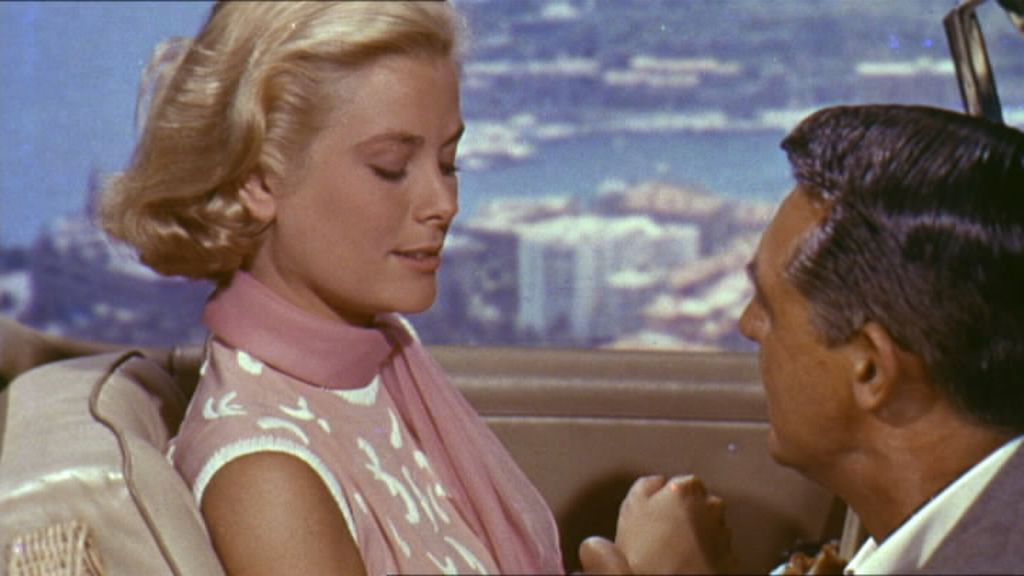 Screenshot of Grace Kelly and Cary Grant from the trailer of the film To Catch a Thief (film)